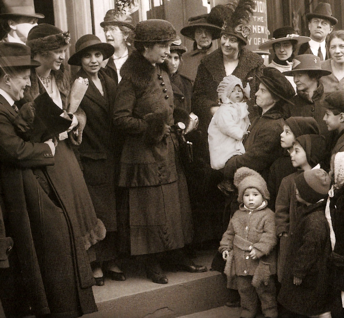 Margaret Sanger, her sister, Ethel Byrne, and Fania Mindell, on the steps of a courthouse in Brooklyn, New York, on January 8, 1917. This photo was taken during a trial accusing Sanger and others for opening a birth control clinic in New York. All three were found guilty.